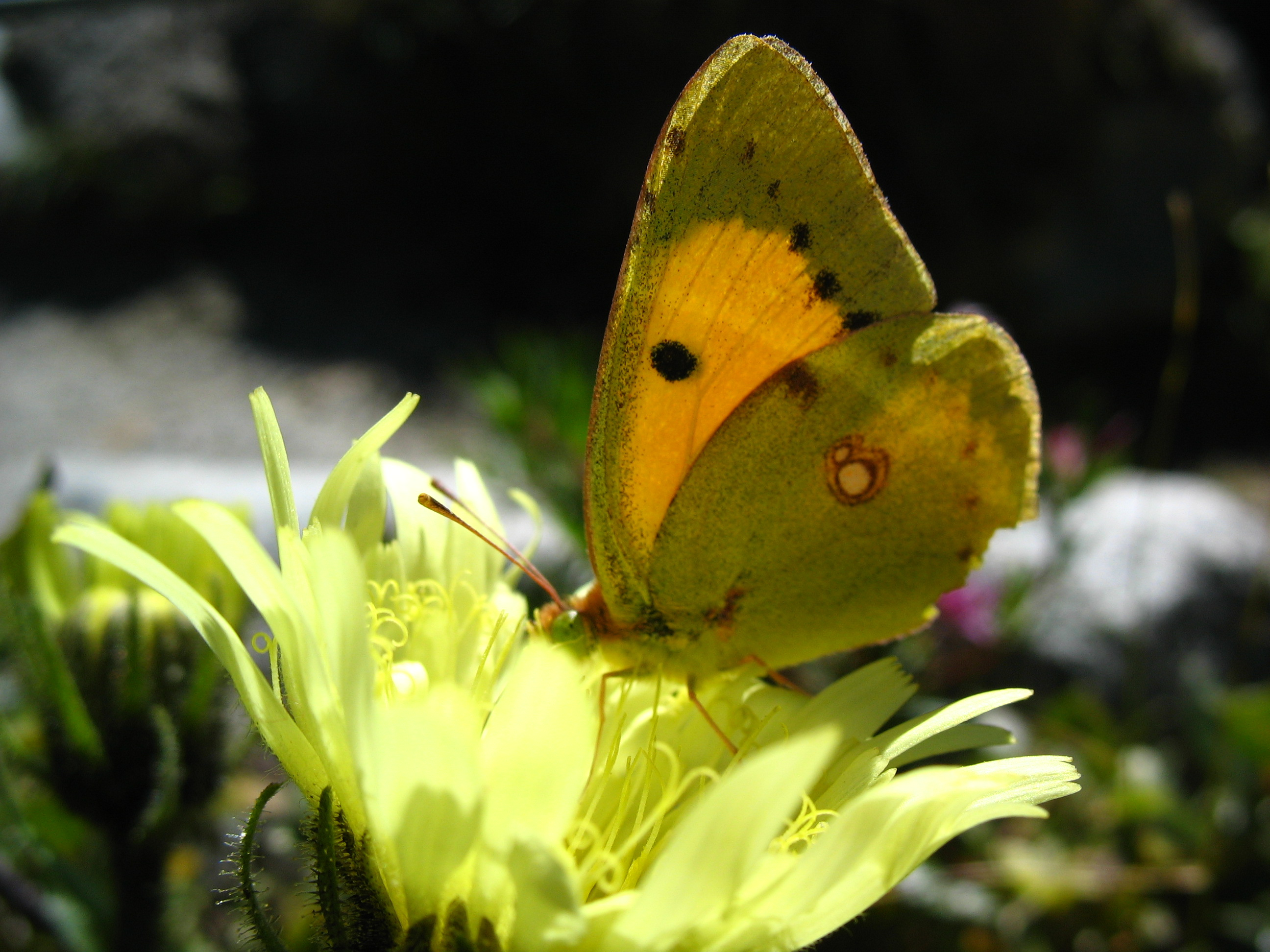 Clouded Yellow on a flower in St. Moritz (Switzerland).